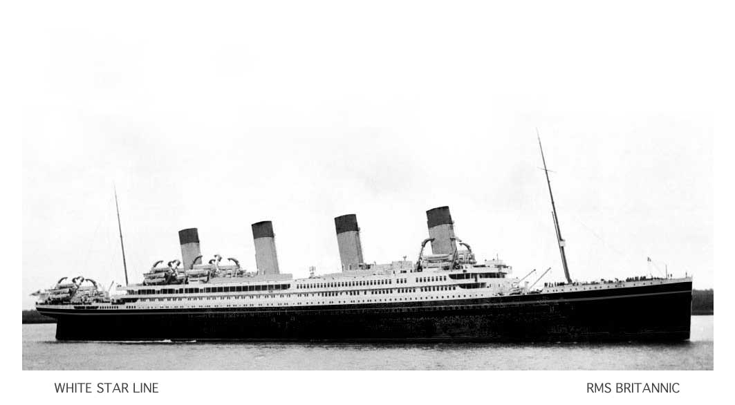 Artist's conception of the Britannic in her intended White Star Line livery. Source: The Maritime Digital Archive Encyclopedia there is stated to use the GNU Free Documentation License. It is also stated that this image is allowed for anyone to use it for any purpose including unrestricted redistribution, commercial use, and modification. This photo was taken prior to 1940, and it possibly already in the public domain.